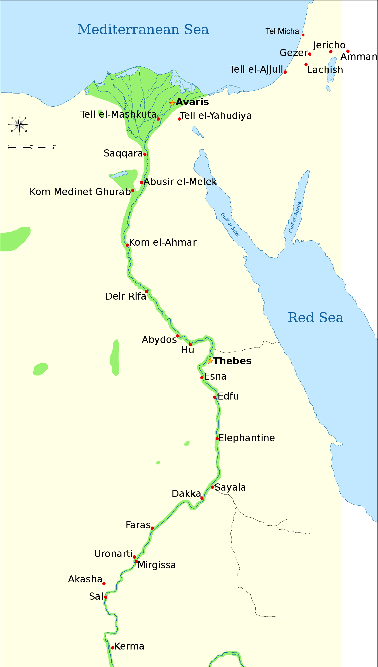 Provenance of scarabs of Sheshi in Canaan, Egypt and Nubia, after Ryholt, Kim (1997) The Political Situation in Egypt during the Second Intermediate Period, c. 1800–1550 B.C, CNI publications, 20, Carsten Niebuhr Institute of Near Eastern Studies, University of Copenhagen : Museum Tusculanum Press, pp. 366–372 ISBN: 978-87-7289-421-8.